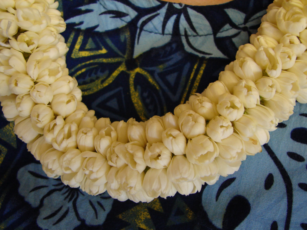 A lei made of fresh pikake or Arabian Jasmine. Very fragrant! I had the scent in my hair for about three days!